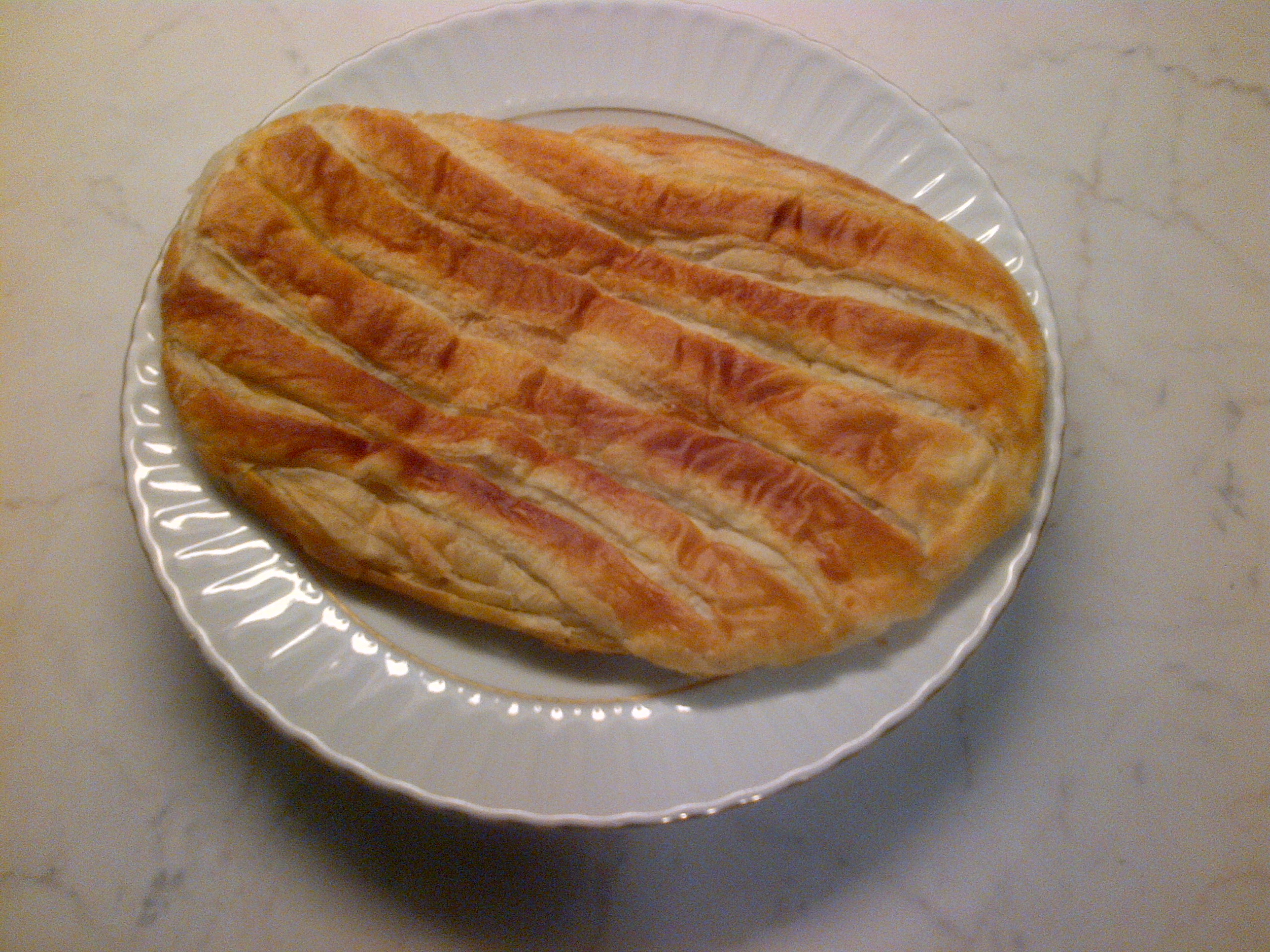 Turkish "katmer".